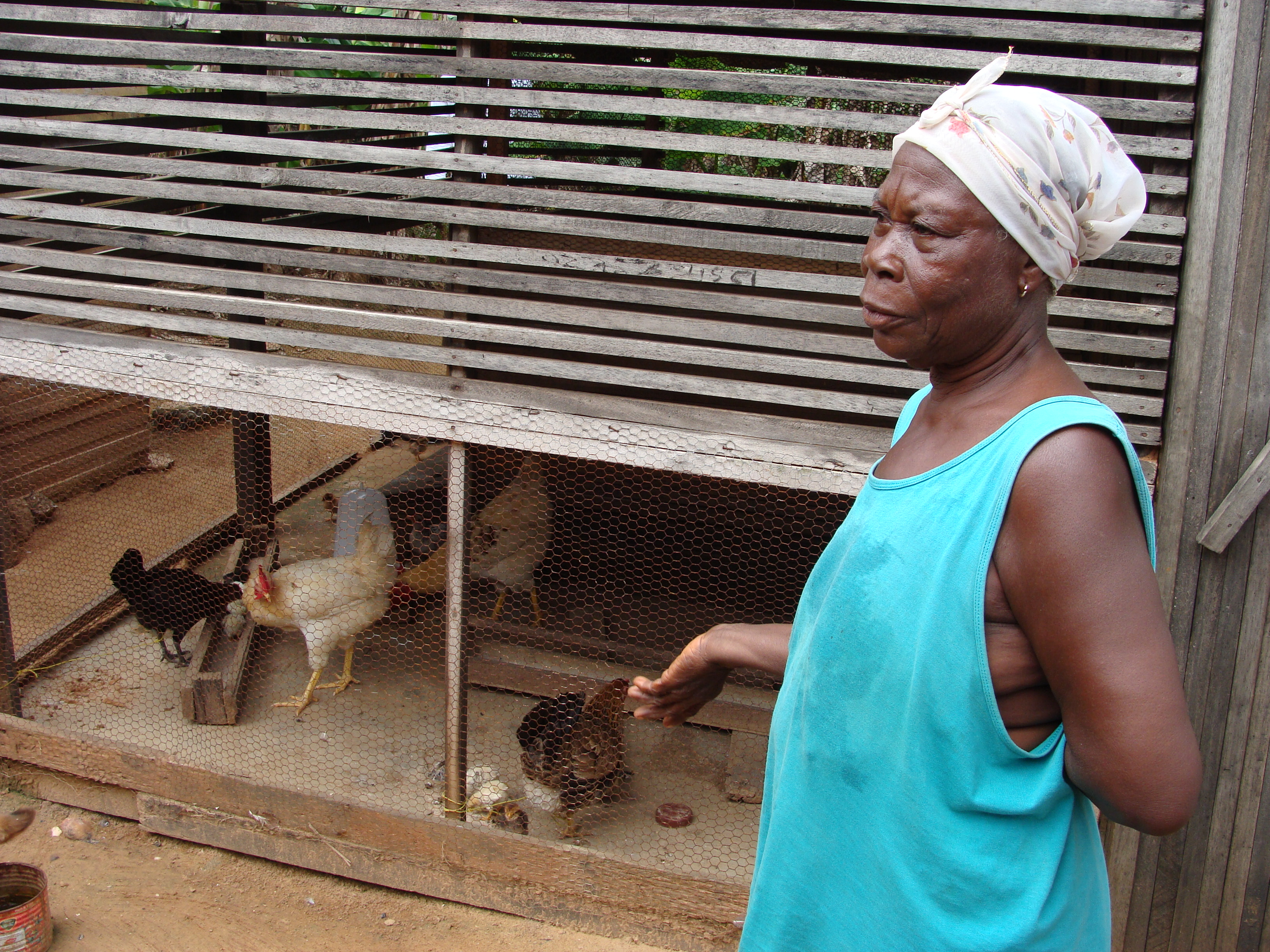 USAID is supporting small farmers, like Matta in western Ghana, build better chicken coops, which increase the chickens’ productivity and the families’ food security. (Susan Quinn/USAID)